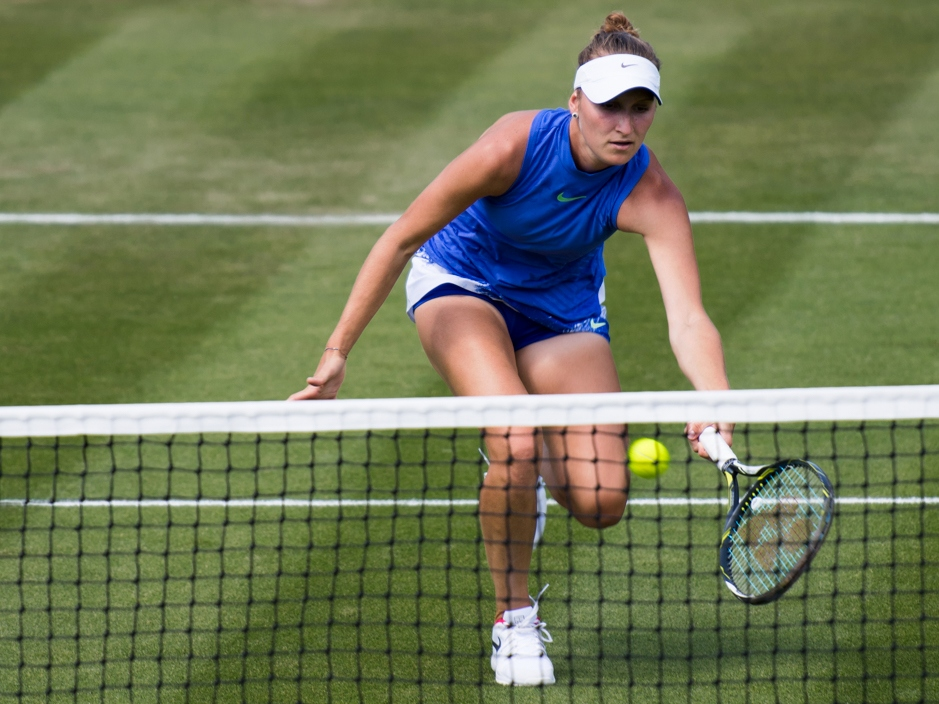 Markéta Vondroušová at the 2017 AEGON Classic